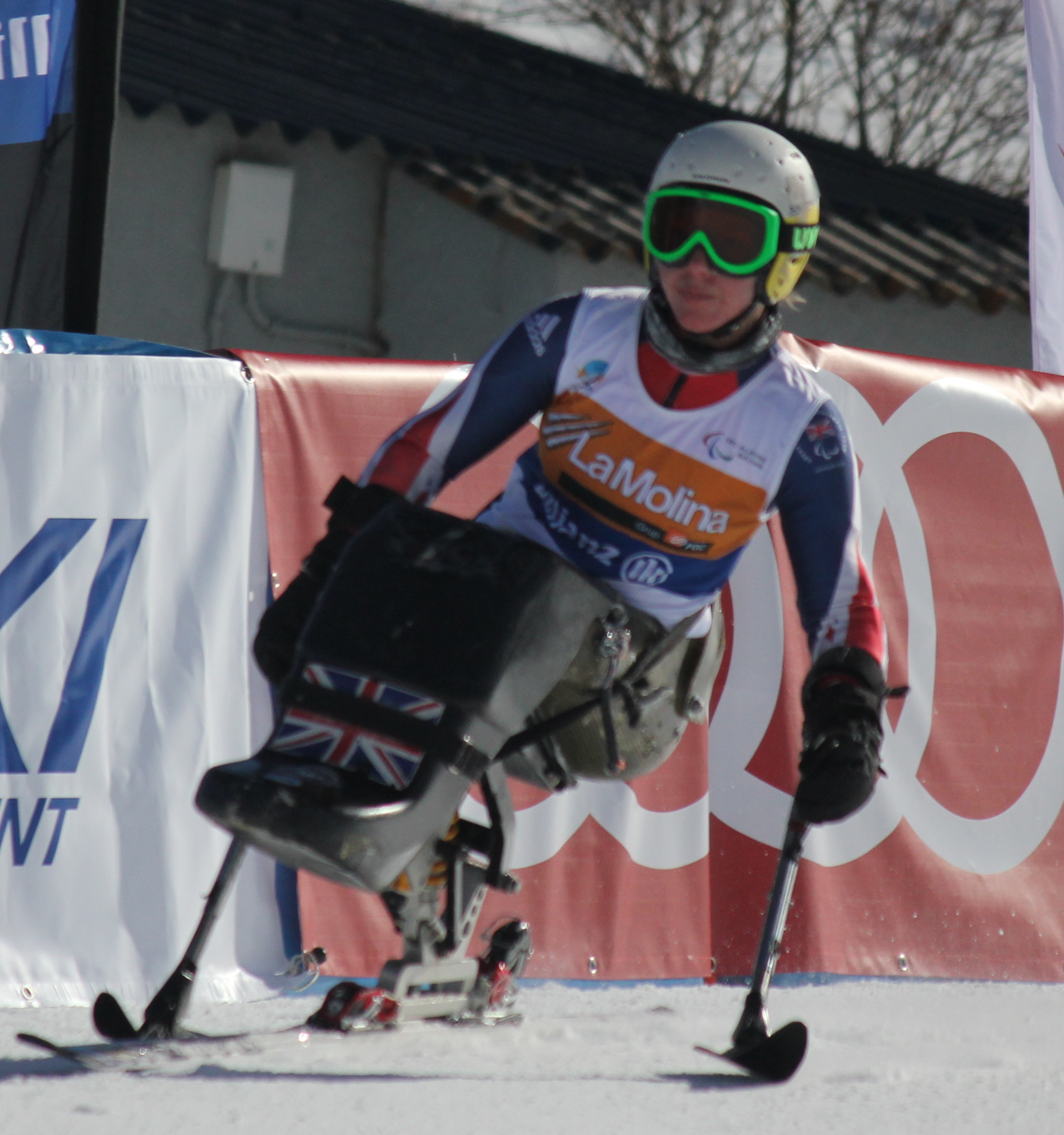 Anna Turney Women's sitting superg skier number 24a